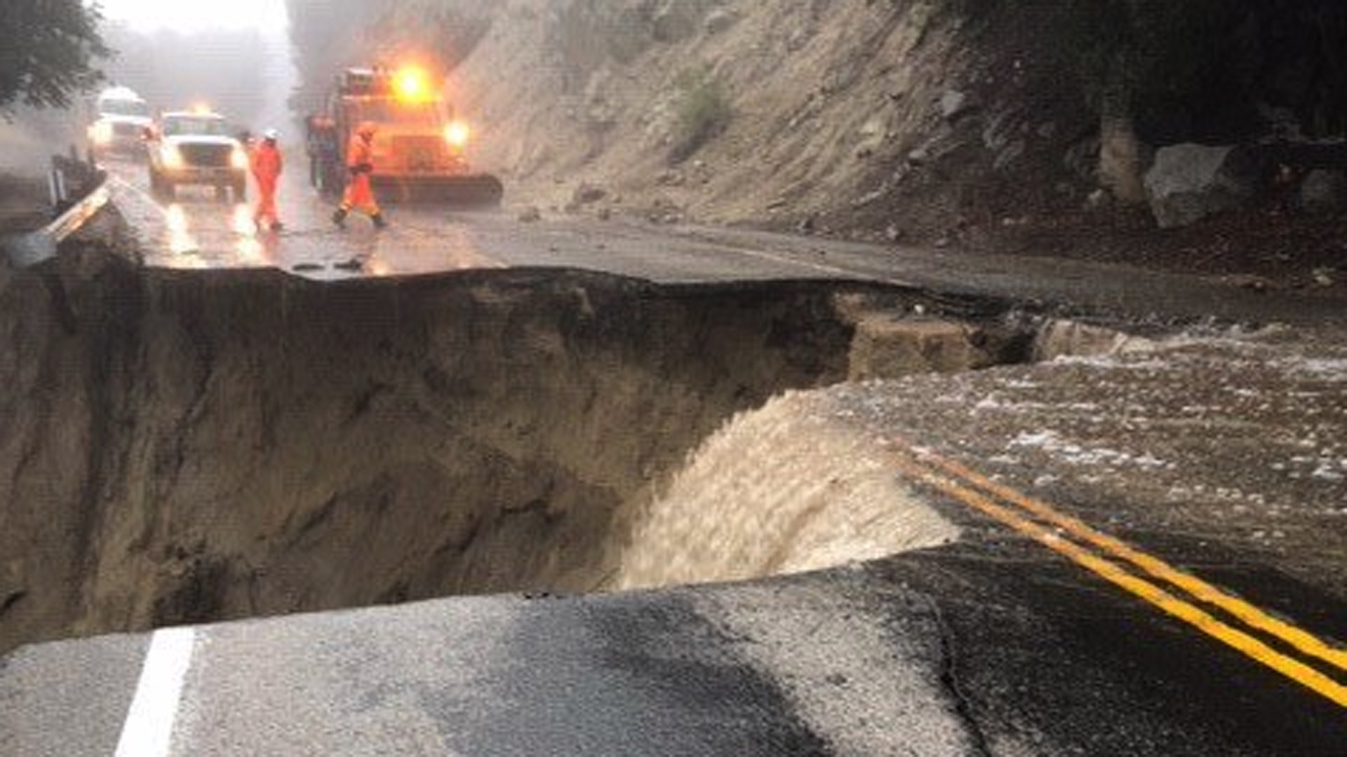 Damage to California State Highway 243 near Idyllwild after heavy rain on February 14, 2019.